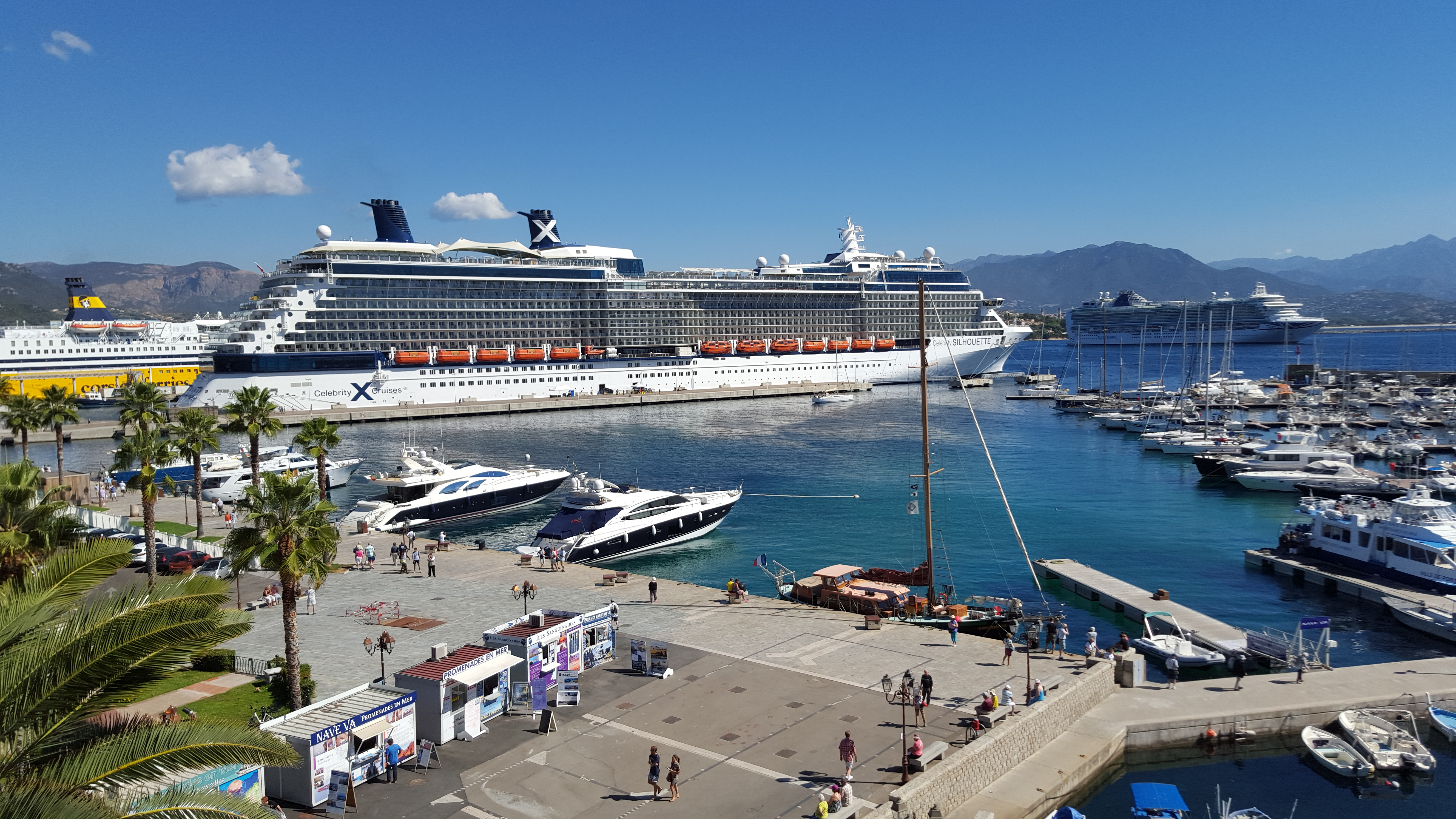 Celebrity Silhouette and P&O MS Azura in the Port of Ajaccio in Corsica, France.